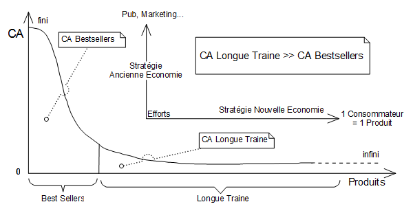 Economic Pattern of the Long Tail